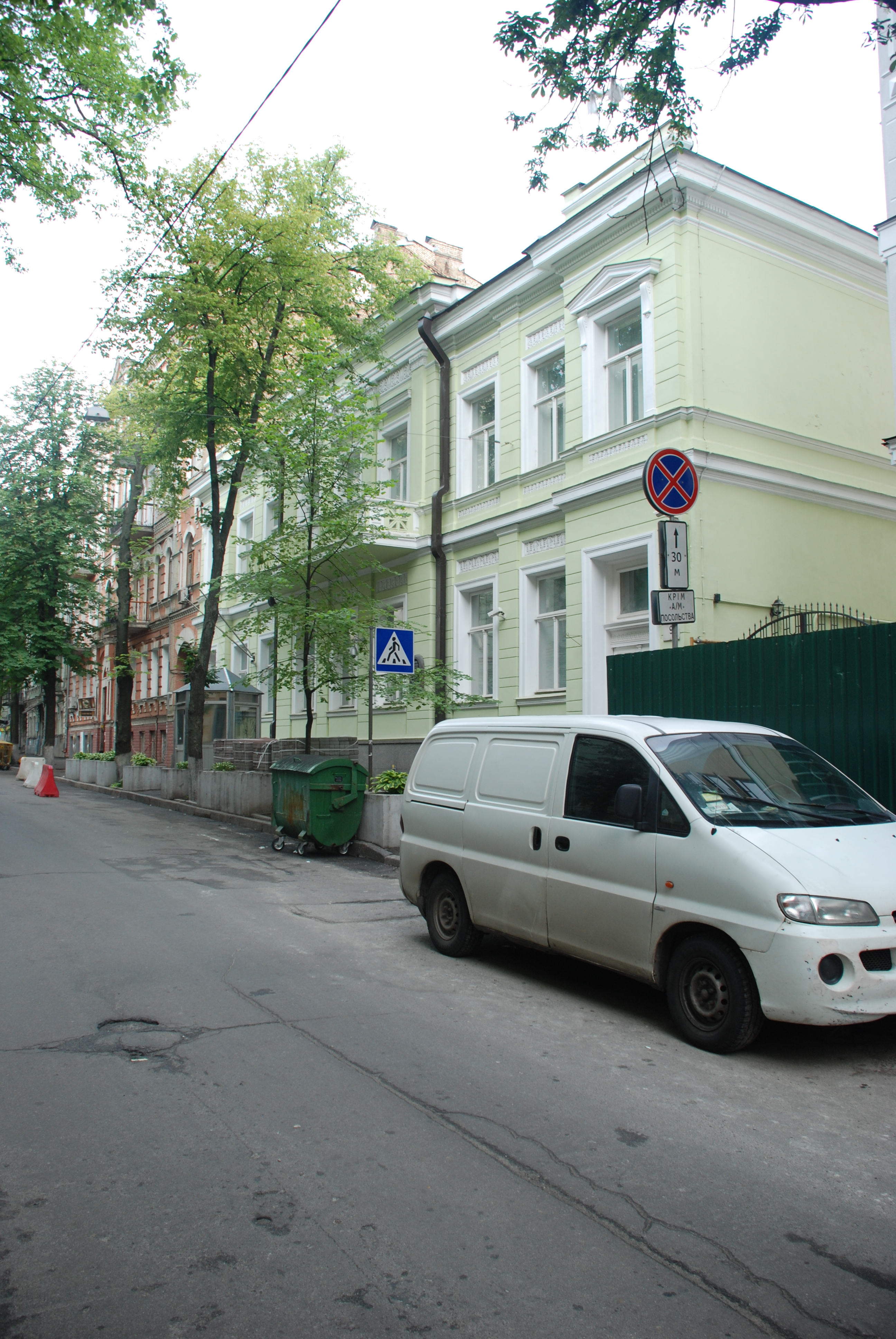 British Embassy in Kiev